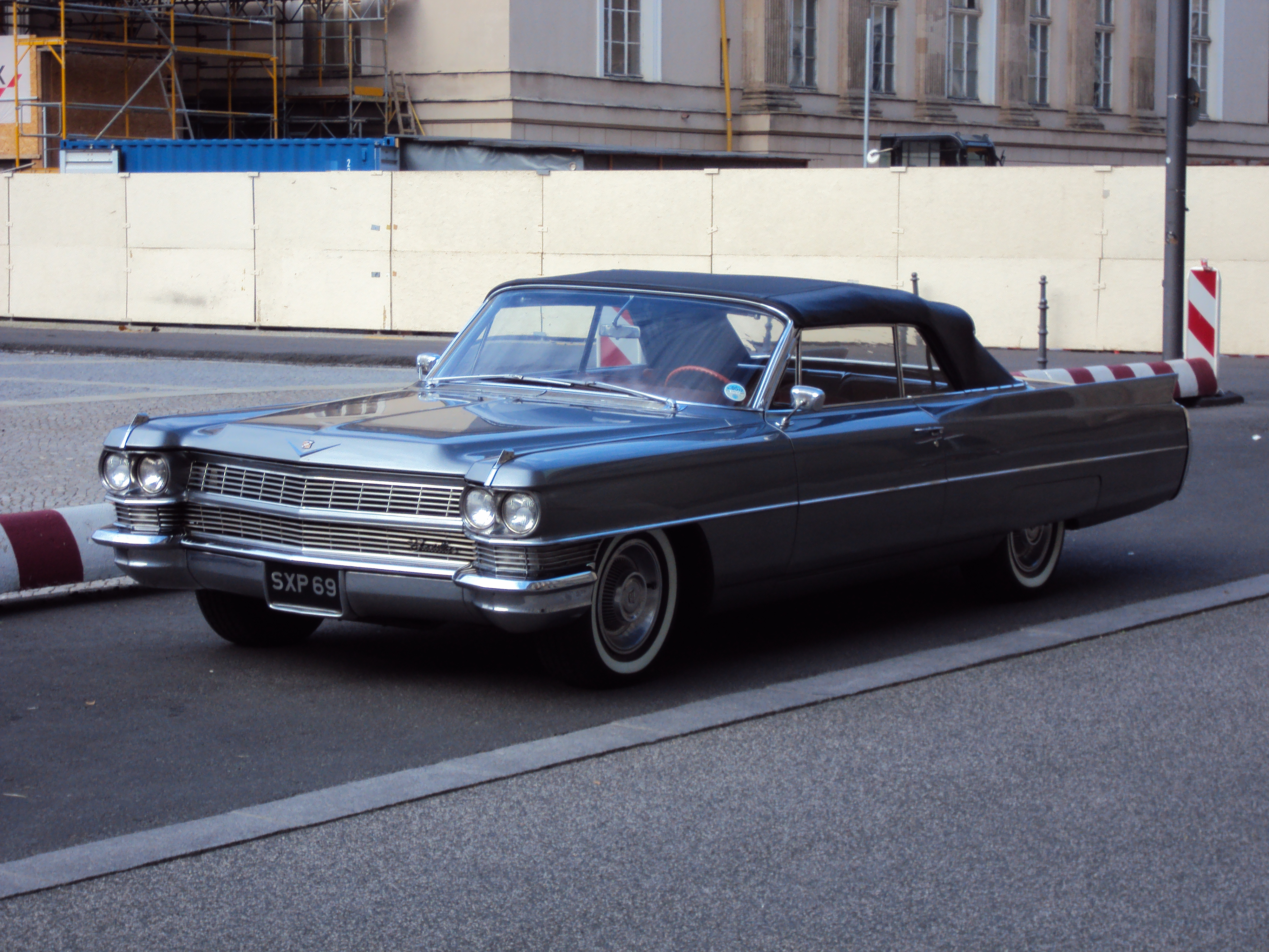 1964 Cadillac Series 62 DeVille Convertible. Photographed in Berlin, Germany.